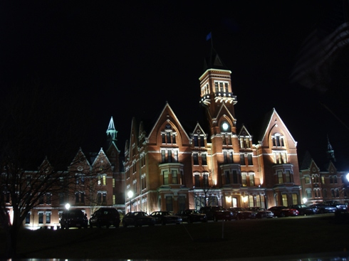 Danvers State Hospital at night.